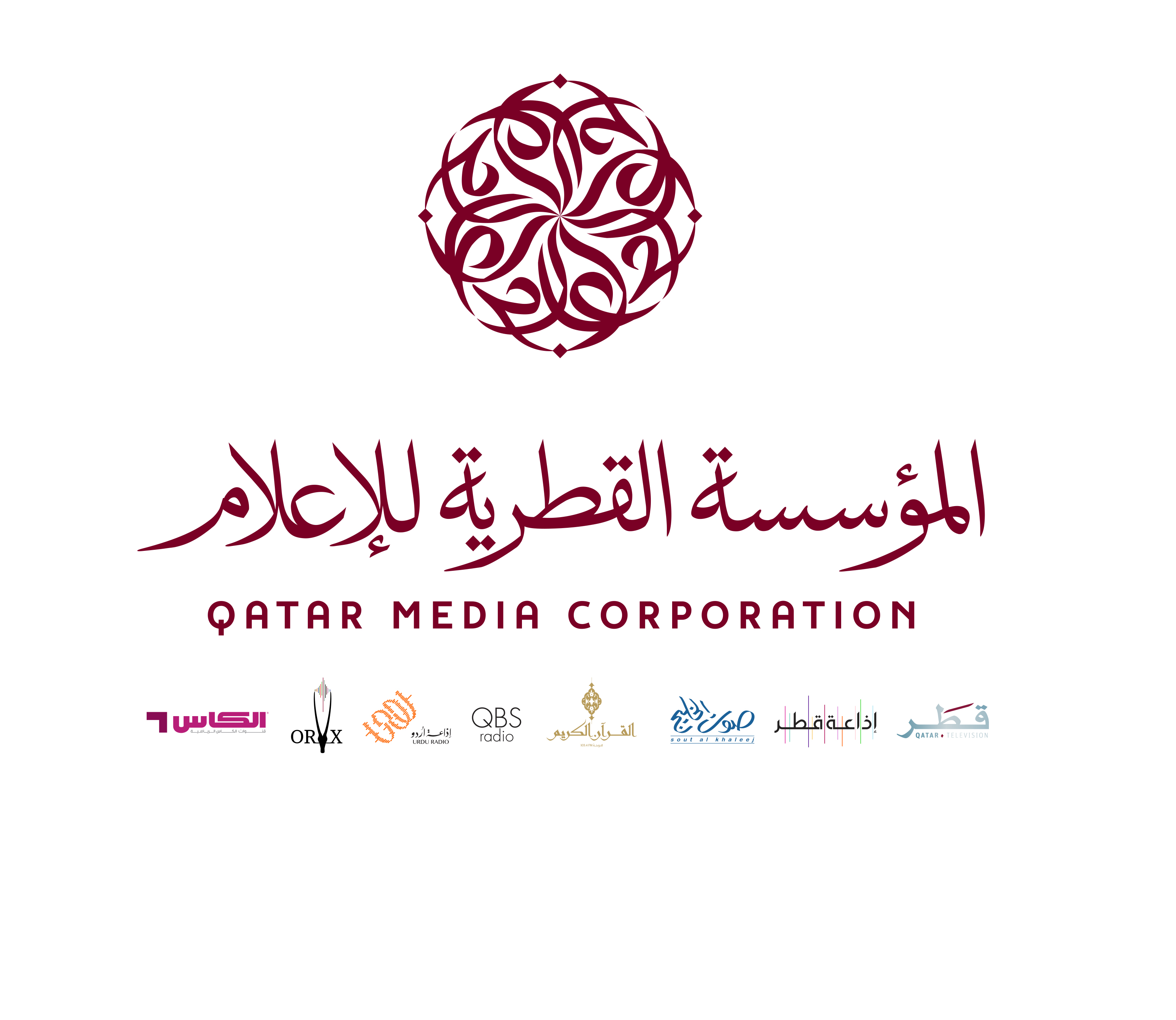 Qatar Media Corporation Logo